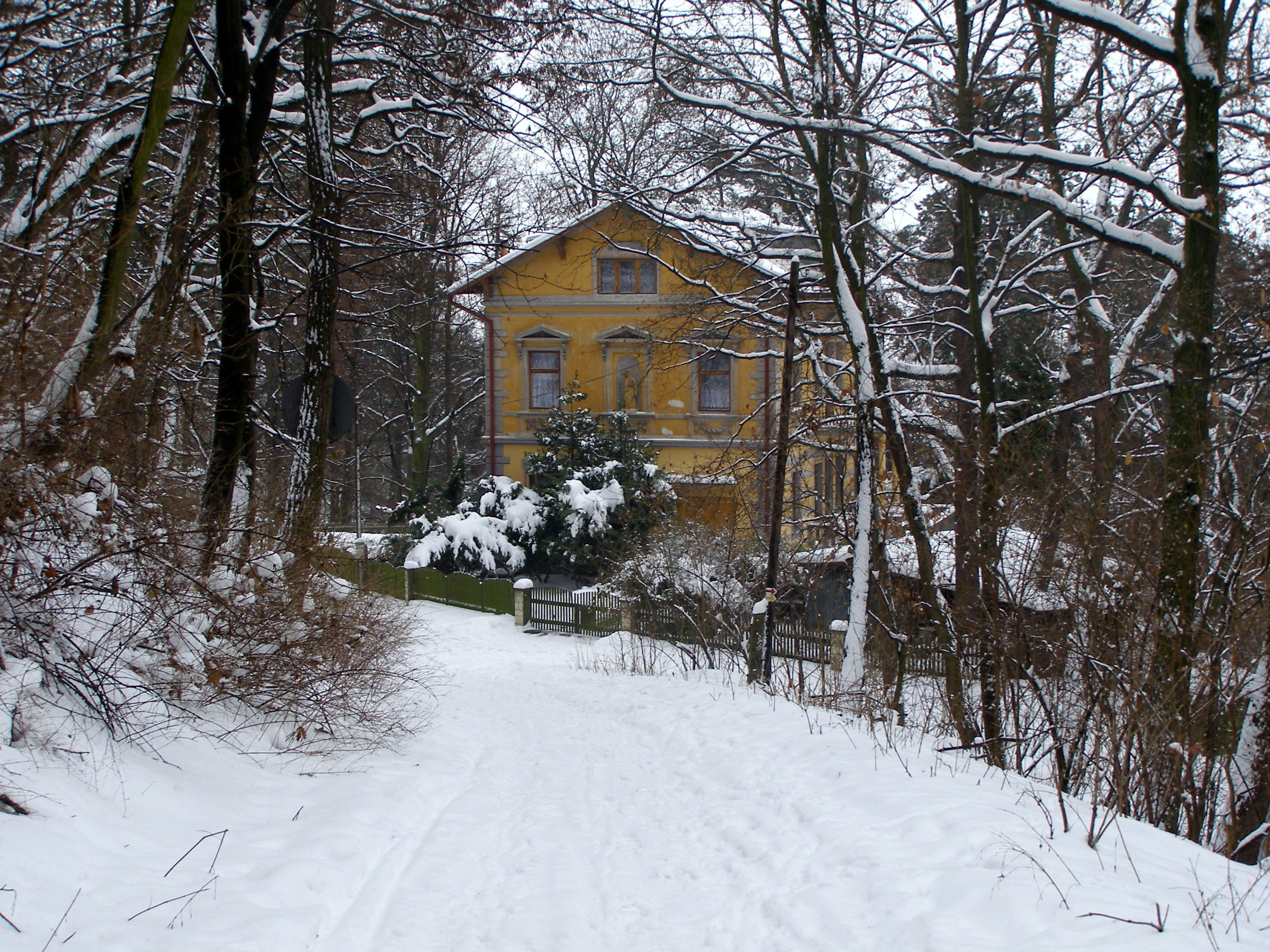 Skalice (Litomerice)